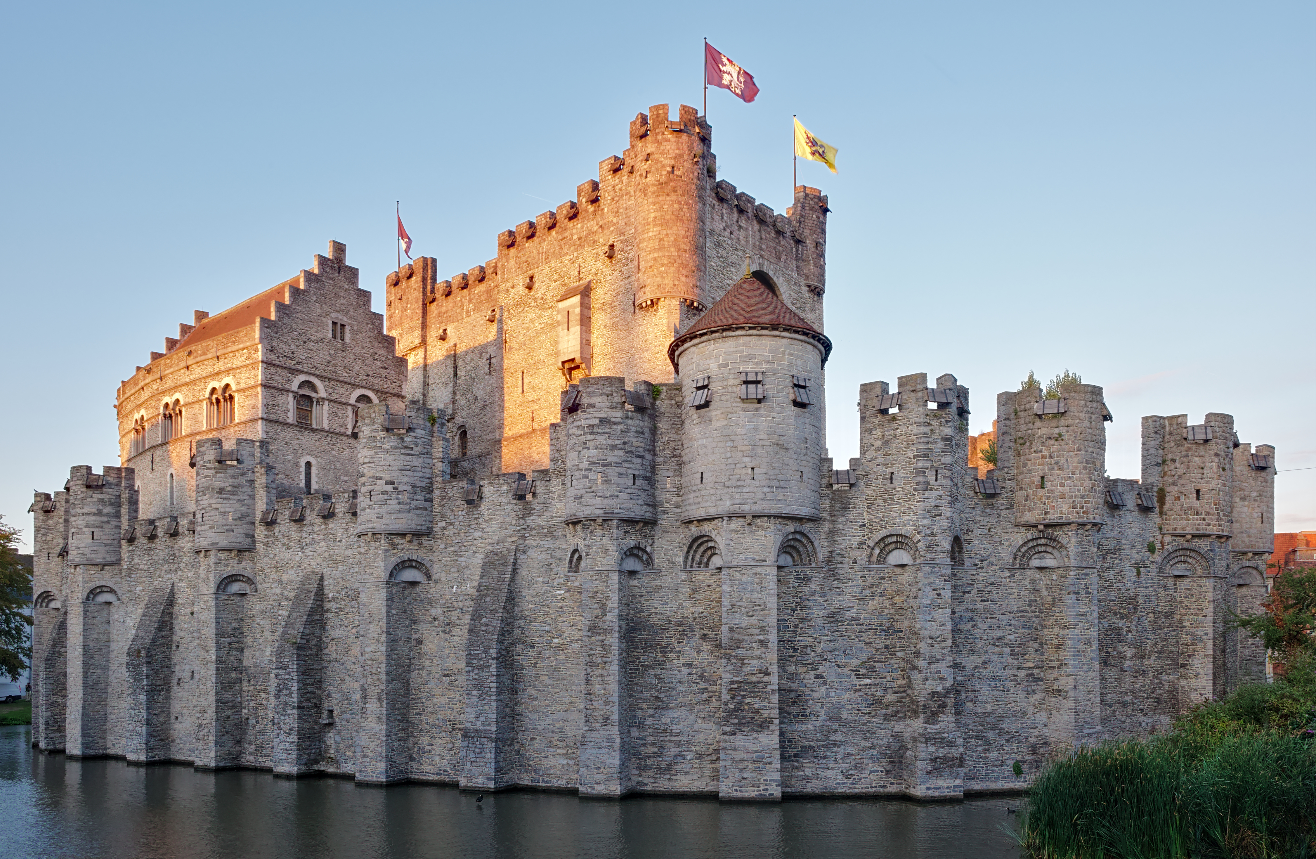 Gravensteen ("Castle of the Counts") during golden hour in Ghent This photo of immovable heritage has been taken in the Flemish Region